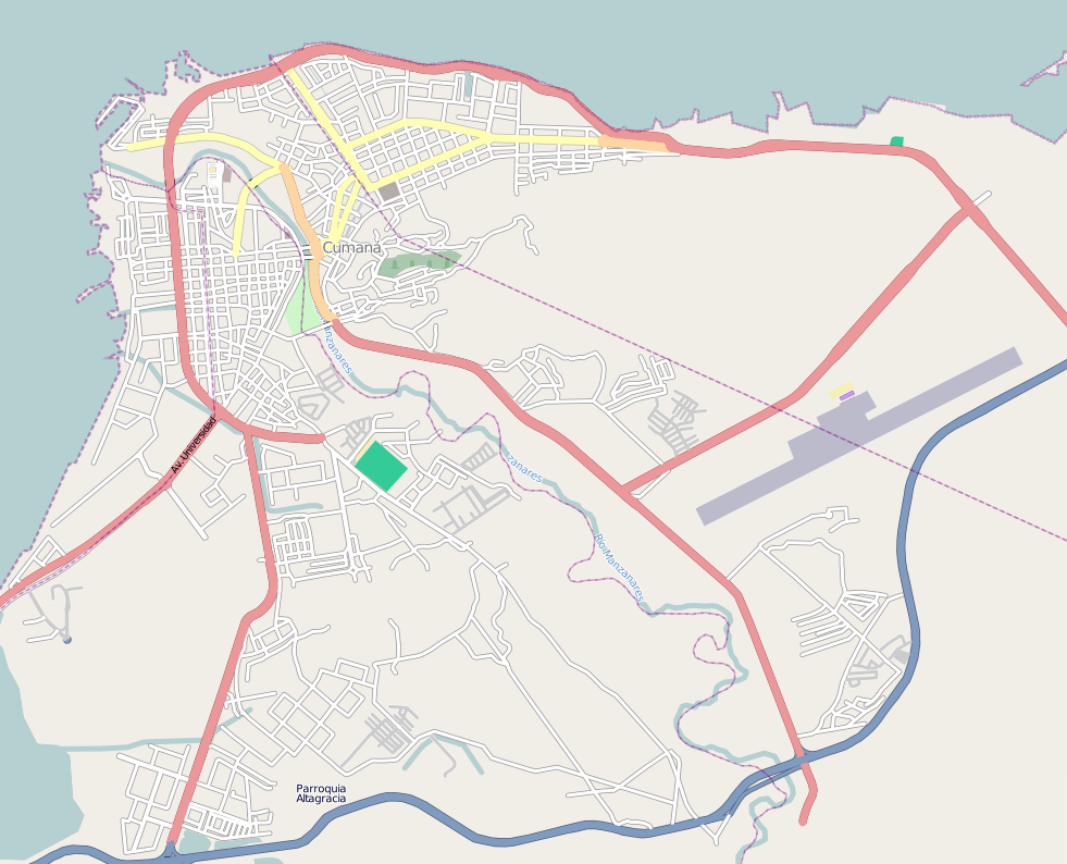 An OpenStreetMap cut of Cumaná.